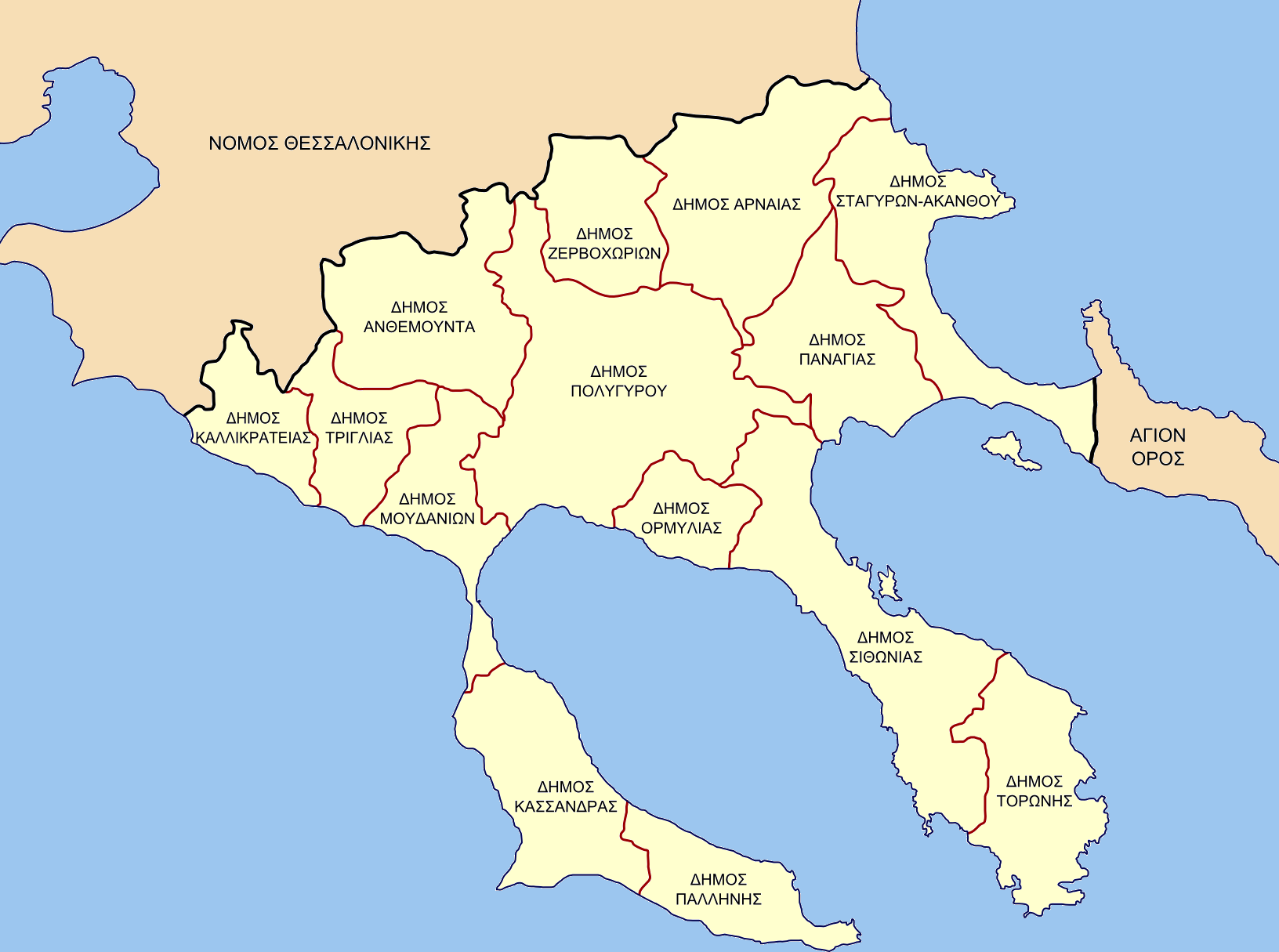 Municipalities of Chalkidiki.